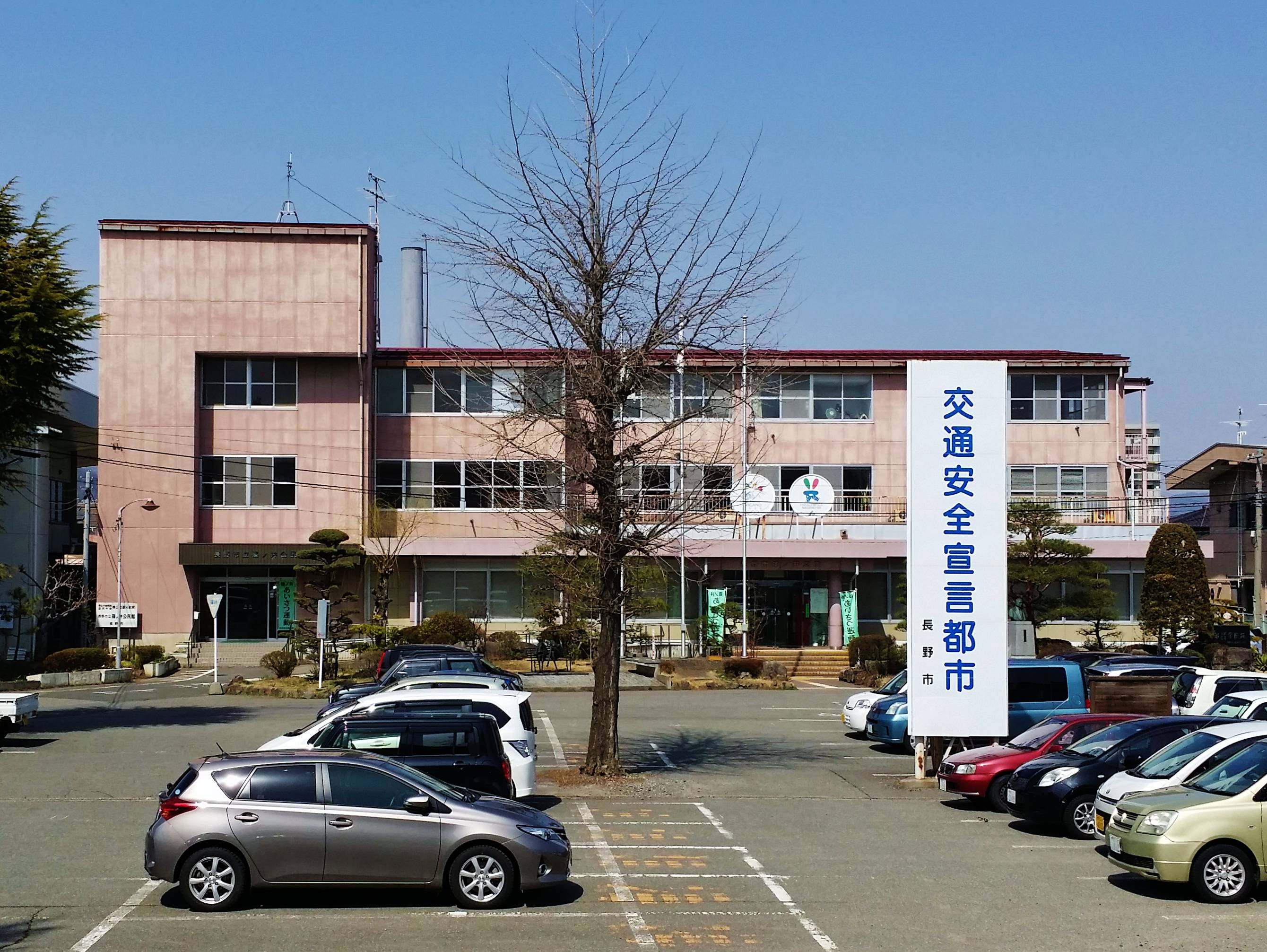 Nagano city Shinonoi branch office.